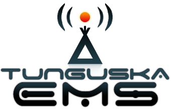 Tunguska E.M.S. logo (Tunguska Electronic Music Society)